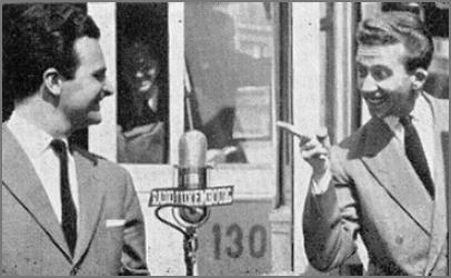 Bobbejaan Schoepen and Louis Baret at the famous Radio Luxemburg.